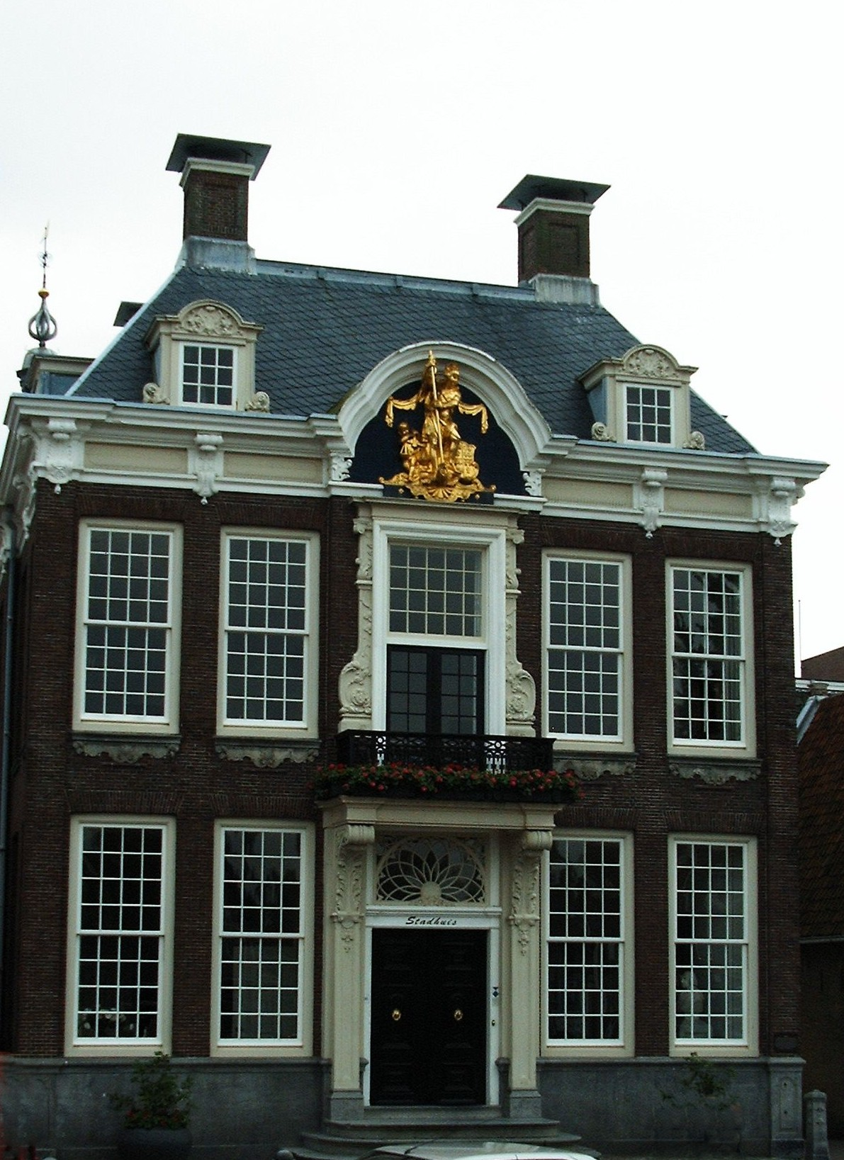 Harlingen, town hallFrysk: Harns, stedshûs